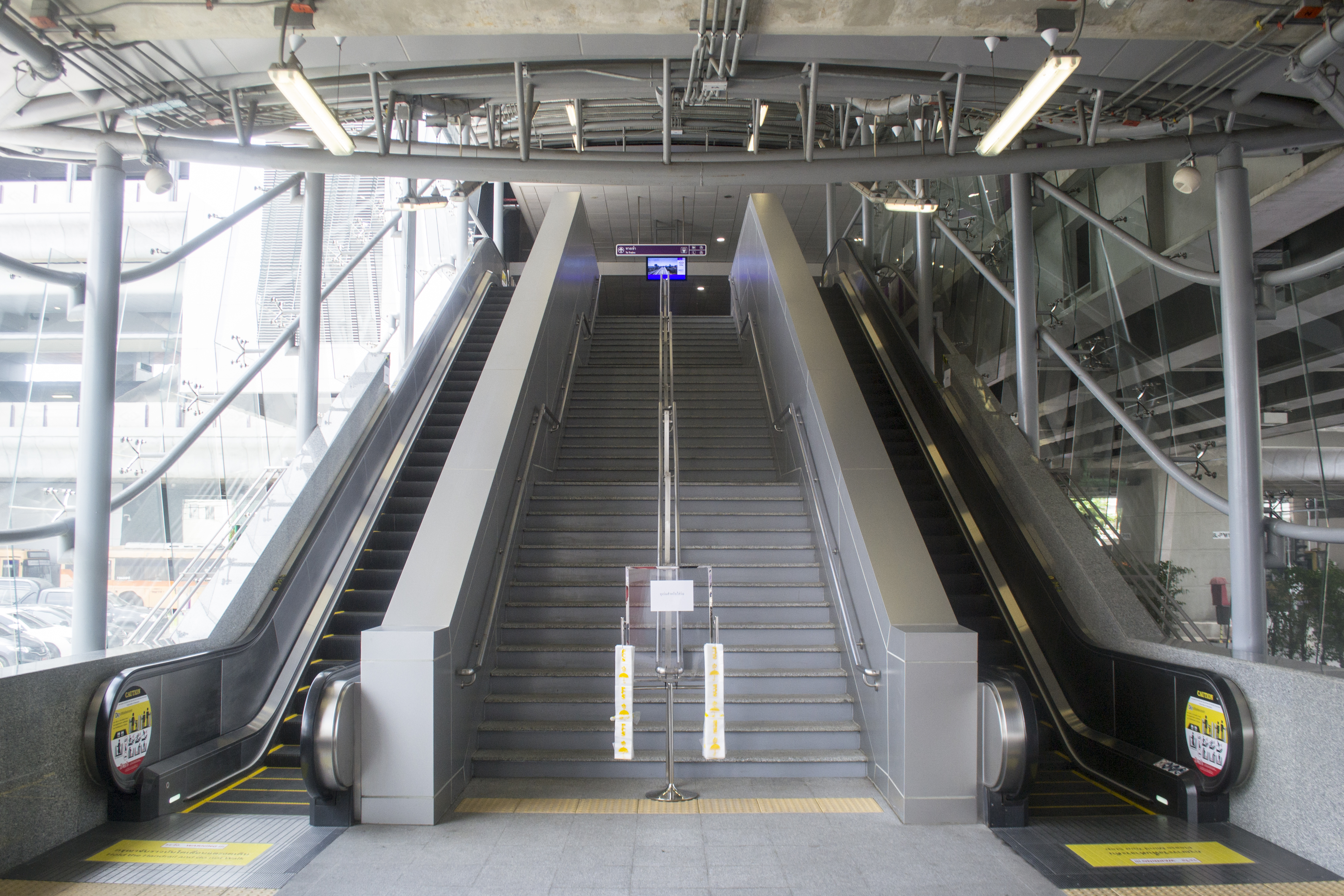 Entrance to Tao Poon station, MRT purple line.